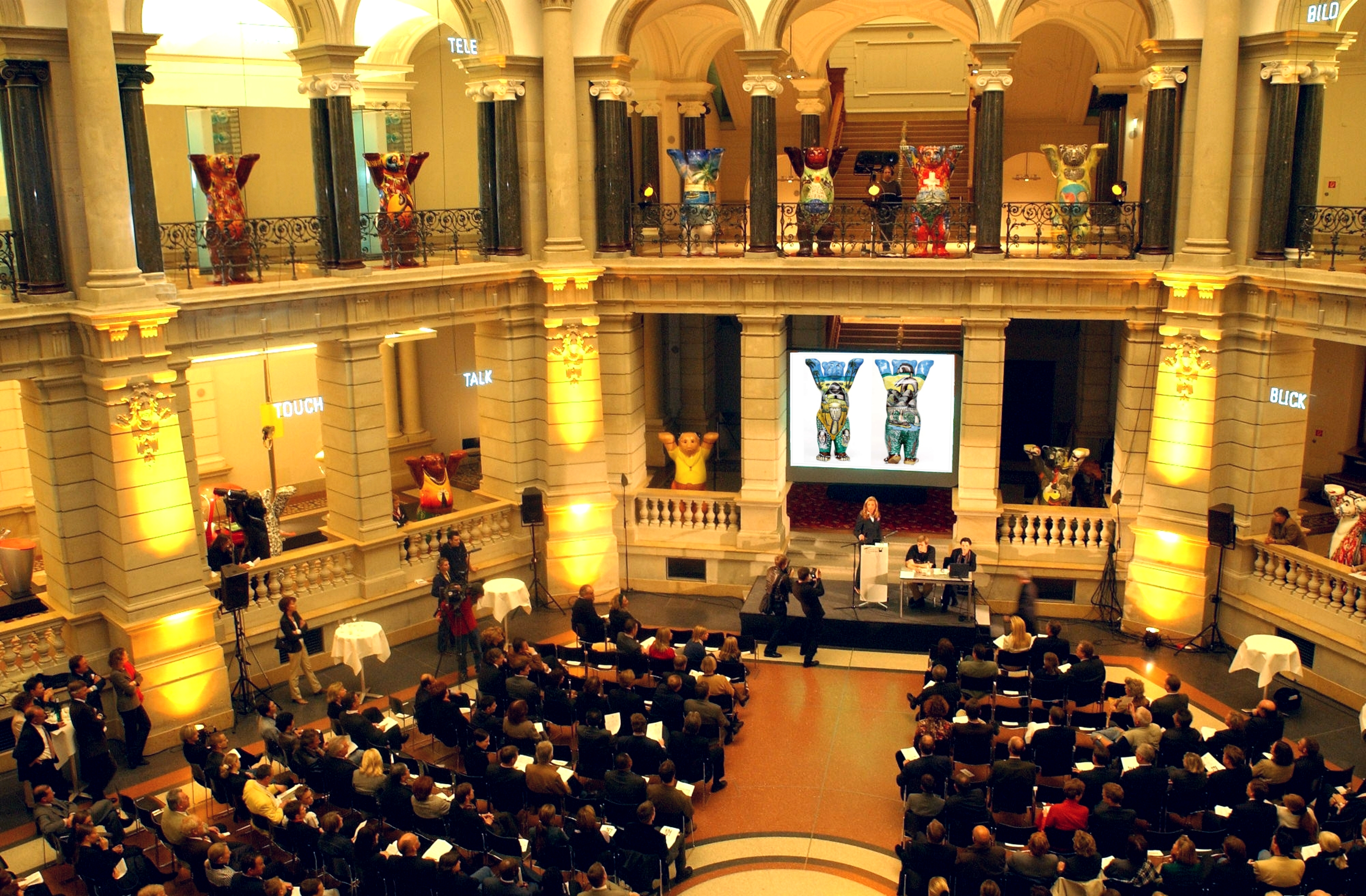 Museum for Communication